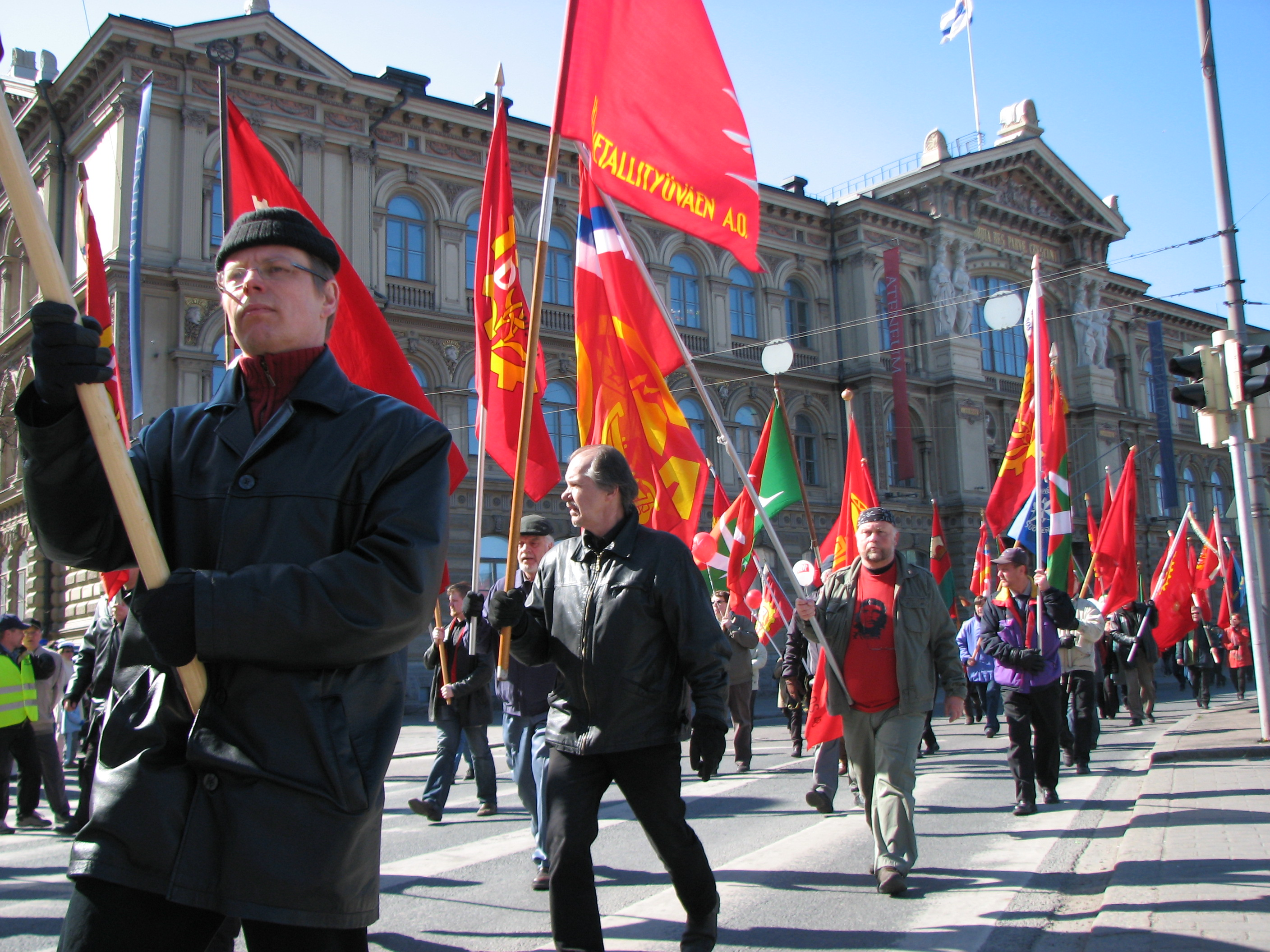 A 1st of May March in Helsinki, Finland, passing in front of Ateneum